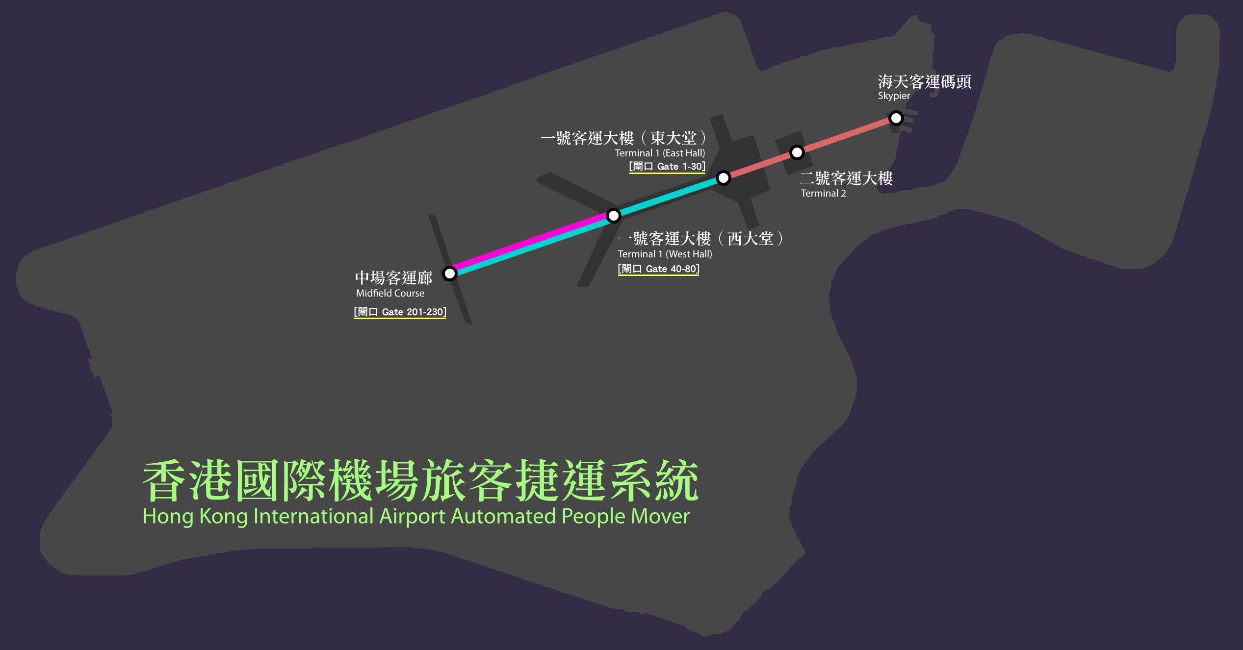 中文（香港）: 香港國際機場捷運系統 This map of Chek Lap Kok was created from OpenStreetMap project data, collected by the community. This map may be incomplete, and may contain errors. Don't rely solely on it for navigation.